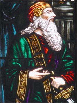 A stain glass window representation of Polonius.